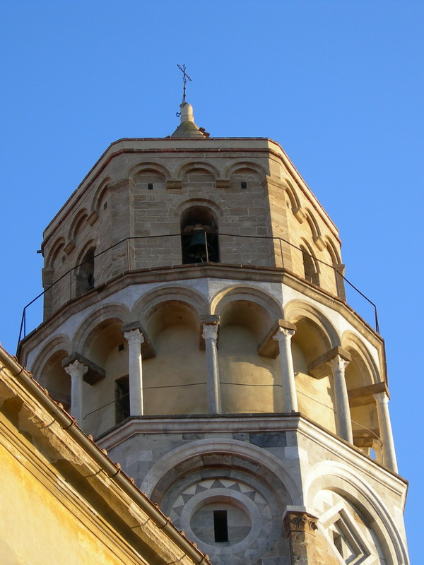 Top of the belltower of the church of San Nicola in Pisa